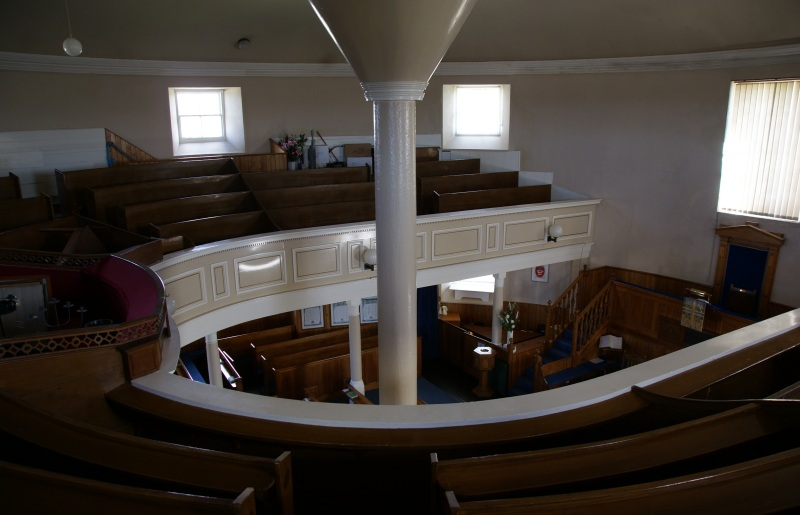 Kilarrow Parish Church, Bowmore, Islay, Scotland. Interior.